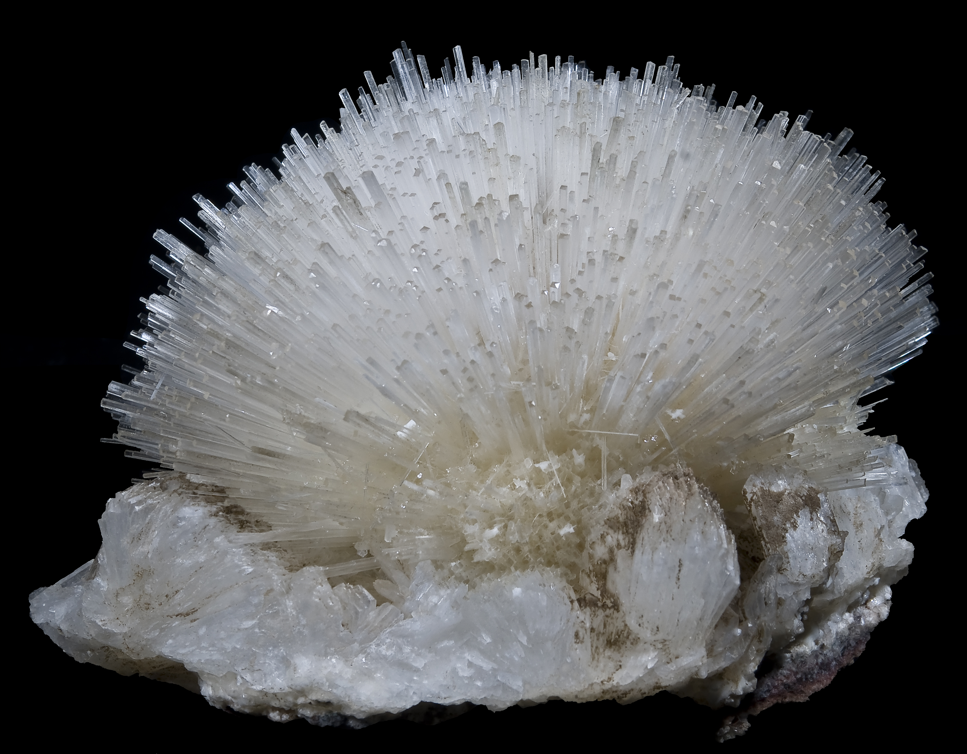 Natrolite Locality : Nasik District, Maharashtra, India Size : (11x9x7cm)